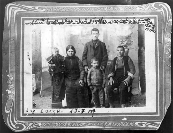 Ilia Bijev (middle) from IMARO with his brother, wife and kids.